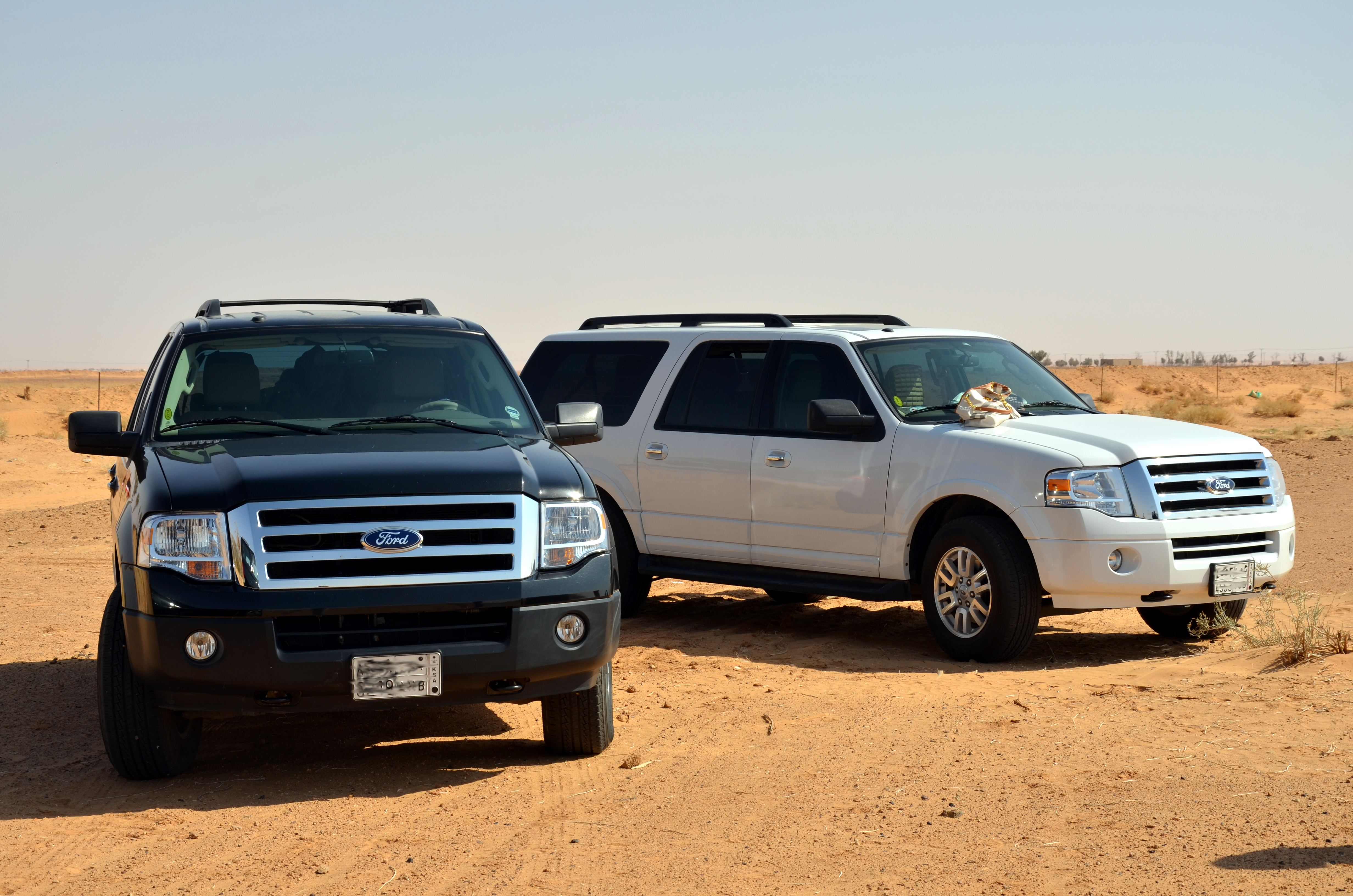 Black & White Ford Expedition 2012 in Riyadh Saudi Arabia